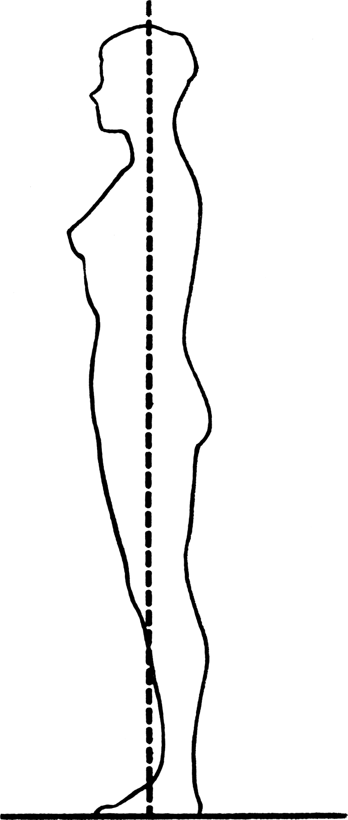 2. If you are standing correctly, an imaginary line can be drawn from the top of the skull through ear, neck, shoulders, hips, knees, and instep.